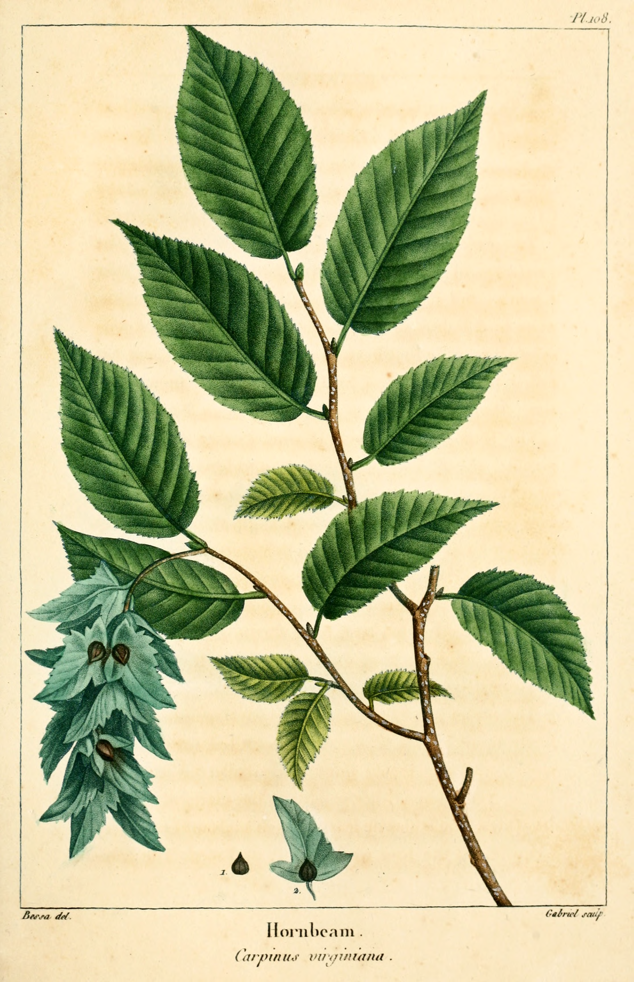 Plate xxx from The North American Sylva: Carpinus caroliniana, American hornbeam. (Original caption: Hornbeam. Carpinus virginiana.)